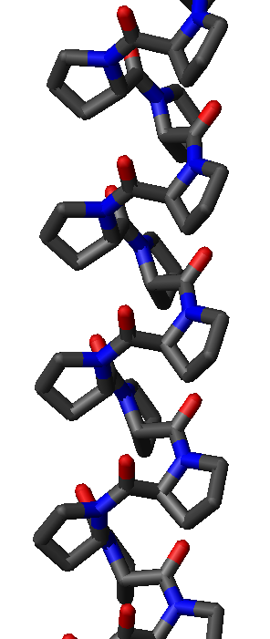 Side view of the poly-Pro I helix, made with MOLMOL.